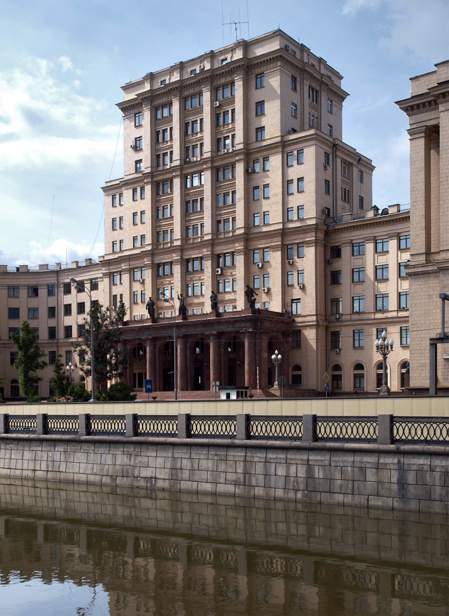 Lefortovskaya Embankment, Moscow. Main building of the Bauman Moscow State Technical University.